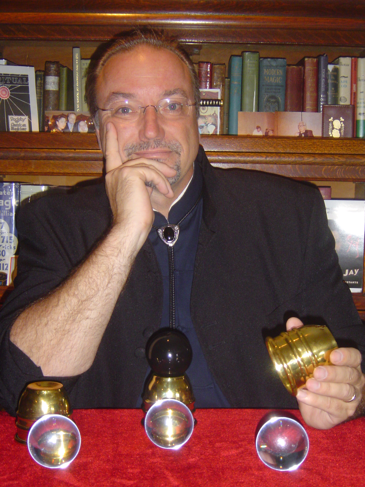 Tom Meseroll the Martial Magician after a perfromance of the Quantum Cups and Balls